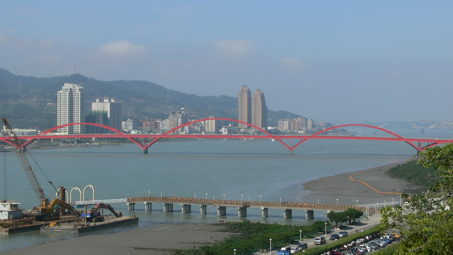 KwanDu Bridge.Taipei, Taiwan